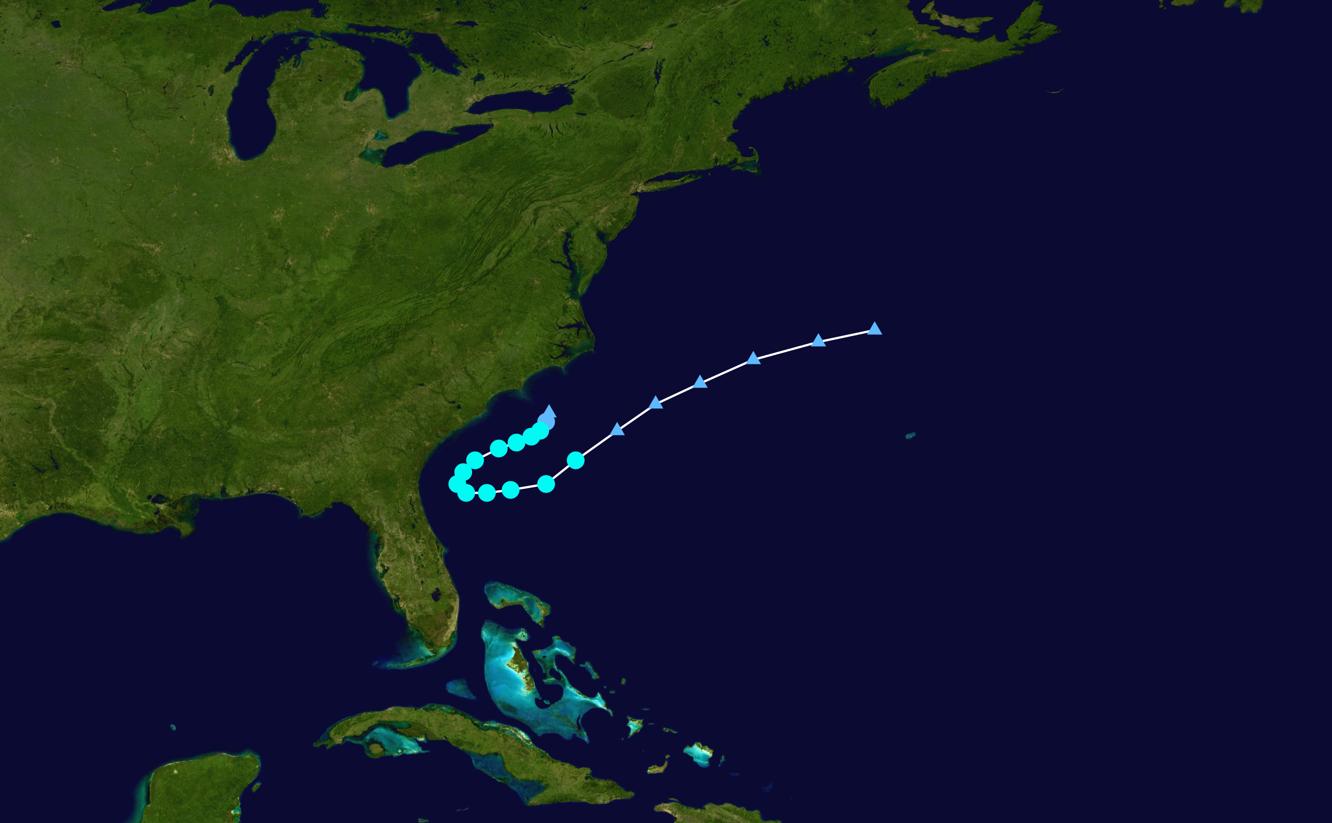 Track map of Tropical Storm Alberto of the 2012 Atlantic hurricane season. The points show the location of the storm at 6-hour intervals. The colour represents the storm's maximum sustained wind speeds as classified in the Saffir–Simpson scale (see below), and the shape of the data points represent the nature of the storm, according to the legend below. Saffir–Simpson scale Tropical depression≤38 mph≤62 km/h Category 3111–129 mph178–208 km/h Tropical storm39–73 mph63–118 km/h Category 4130–156 mph209–251 km/h Category 174–95 mph119–153 km/h Category 5≥157 mph≥252 km/h Category 296–110 mph154–177 km/h Unknown Storm type Tropical cyclone Subtropical cyclone Extratropical cyclone / Remnant low / Tropical disturbance / Monsoon depression